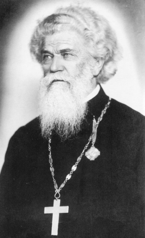 Stevan Dimitrijević (1866-1953), Serbian Orthodox priest and rector of the Prizren Seminary